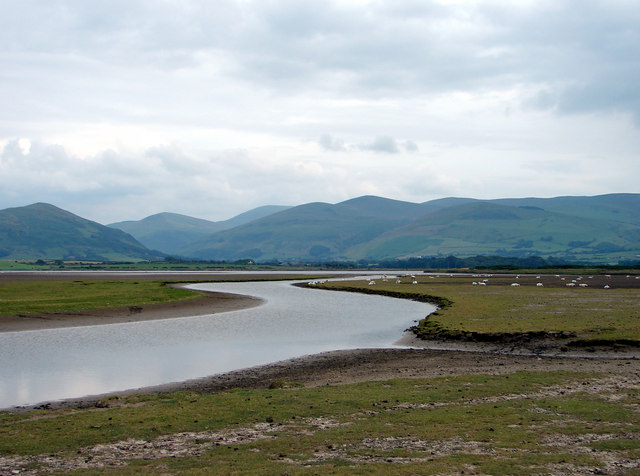 Afon Dysynni & Morfa Gwyllt, near to Tywyn, Gwynedd, Wales. This square is dominated by Afon Dysynni and Broad Water. Morfa Gwyllt provides pleasant, accessible walking.